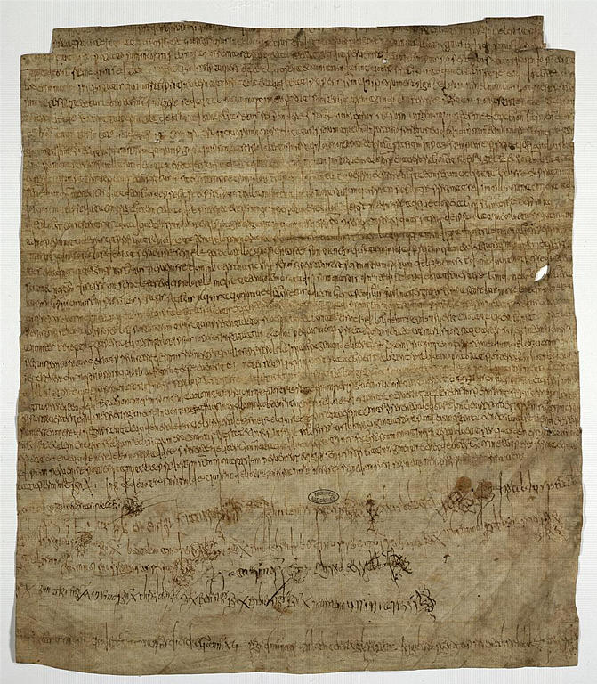 A 7th century noblewoman named Clotilde (Chlodechildis) endowed a monastery at Bruyères-le-Châtel near to Étampes. This is the original charter. Among the signatories was Bishop Agilbert of Paris, formerly Bishop of the West Saxons, whose last recorded act this is. The document is dated 10 March 673. Access to the original document is restricted and microfilm copies only may be consulted.